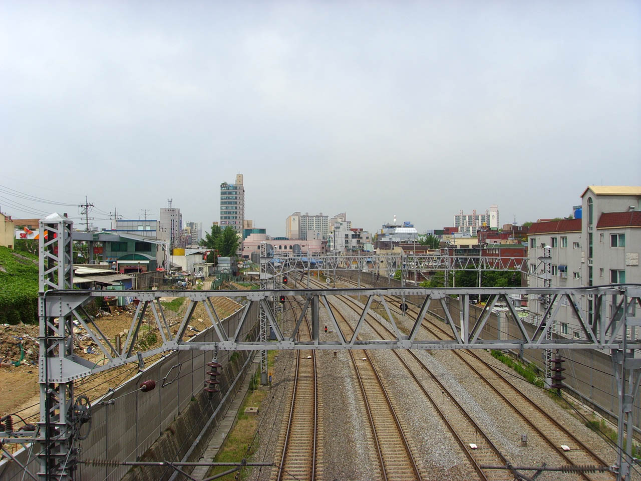 Gyeongin Line, near Jemulpo Station